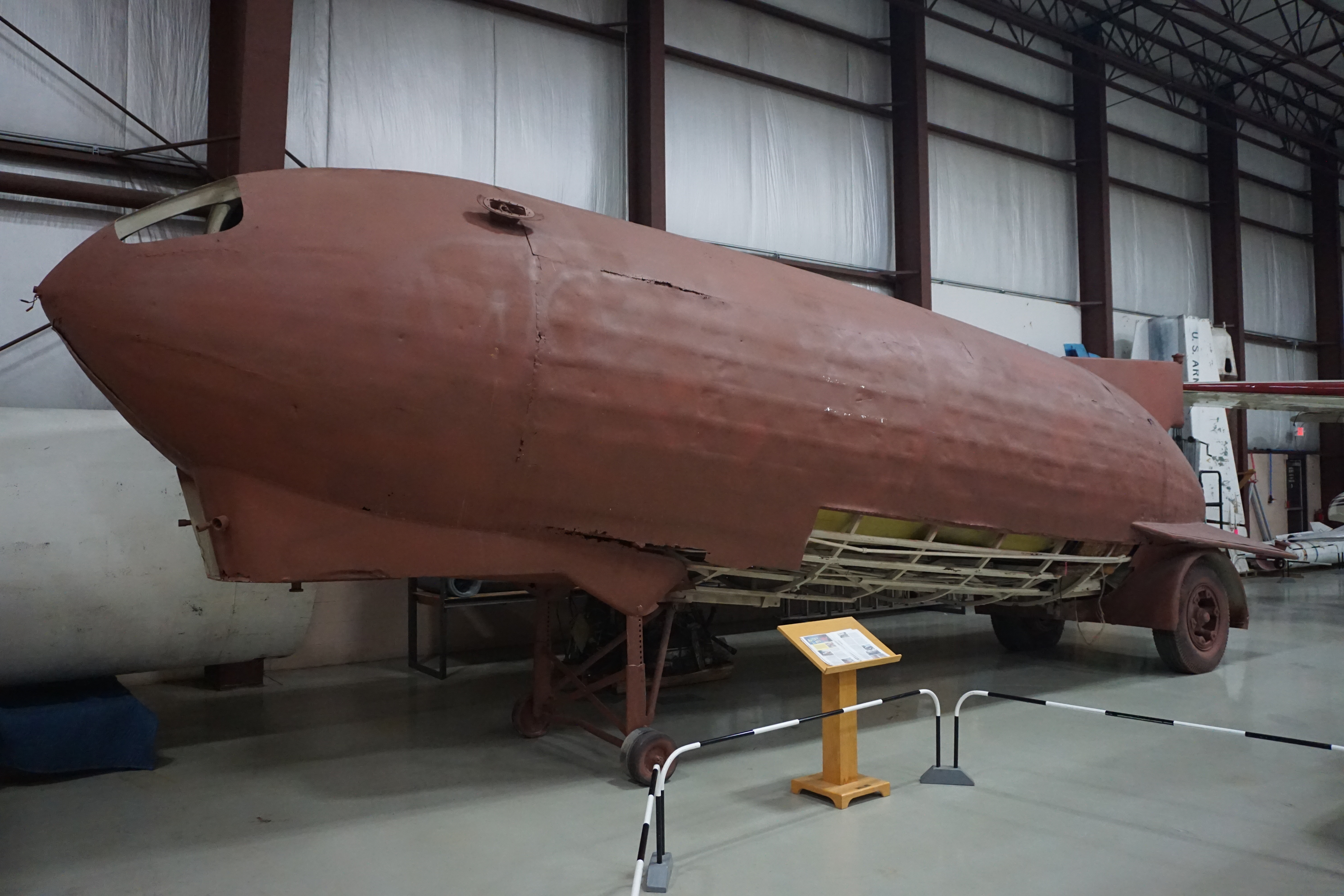 The Rocky Jones Silvercup Rocket on display at the Air Zoo at Kalamazoo/Battle Creek International Airport in Portage, Michigan (United States).